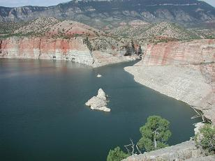 from (public domain)